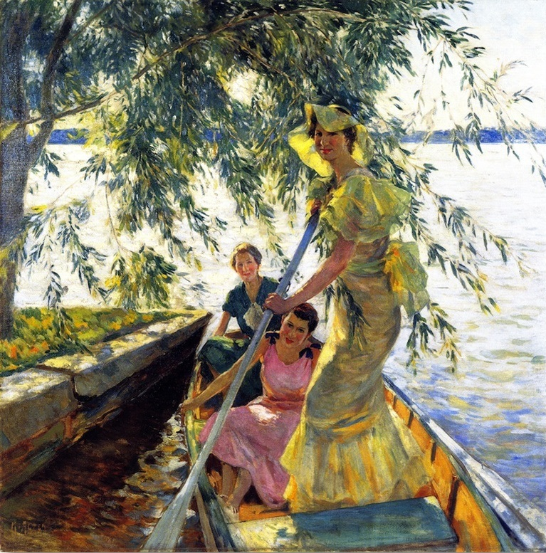 Three women in a rowboat